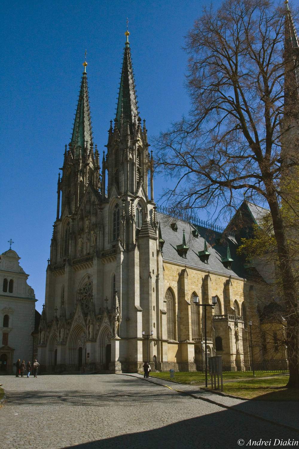 Kostel sv. Václava